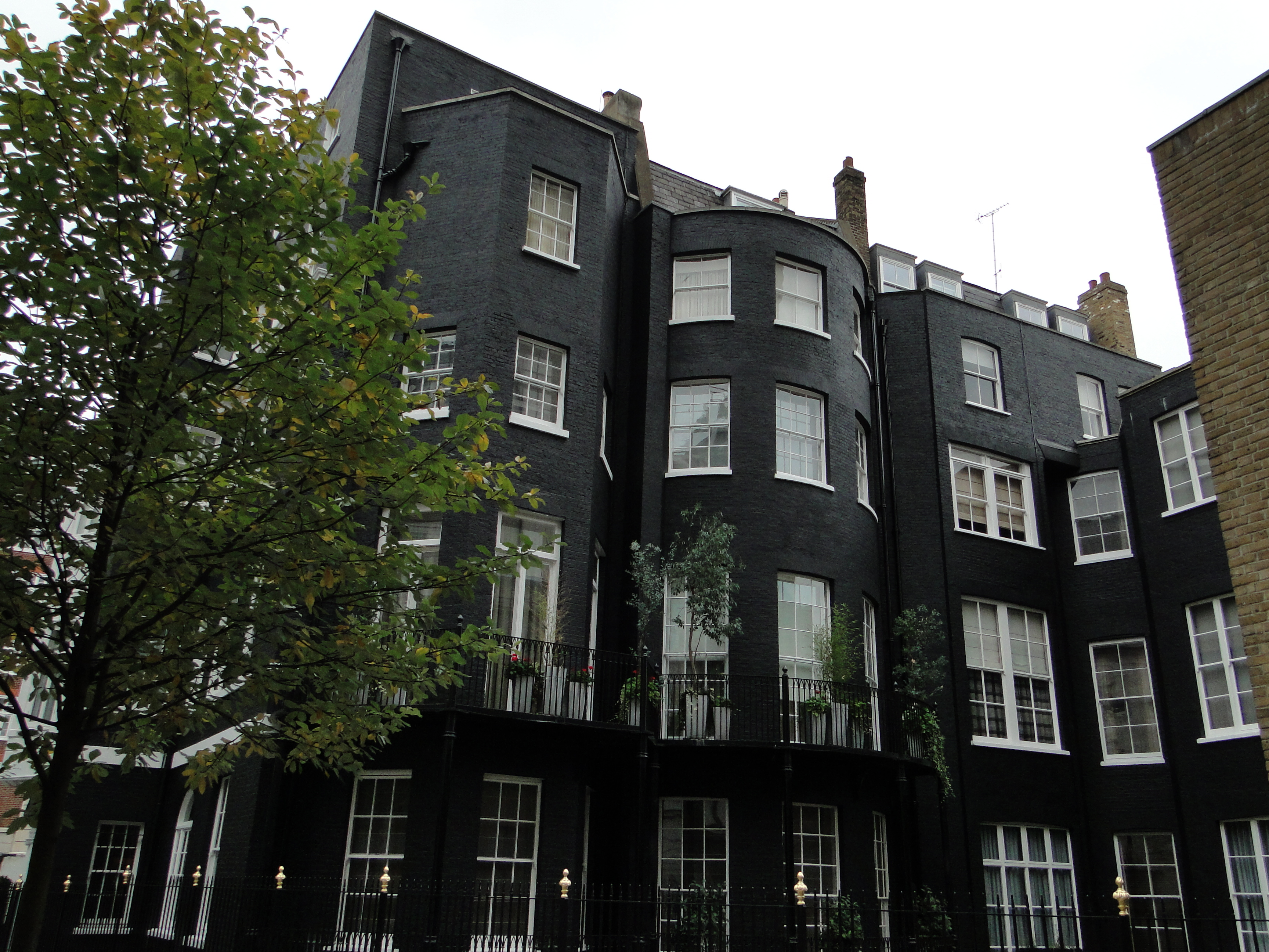 1 Curzon Square, Mayfair, London, formerly 12 Curzon Place showing top (4th)-floor flat, the location of the death of Keith Moon